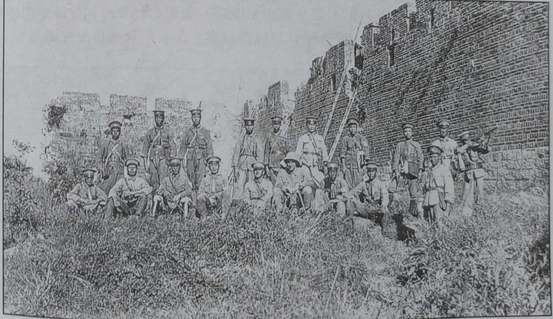 Part of the officers and soldier Artillery Battalion of the First Army of National Revolutionary Army and their Soviet military adviser (fourth from right, front row) took a group photo outside the North Gate of Huizhou City.